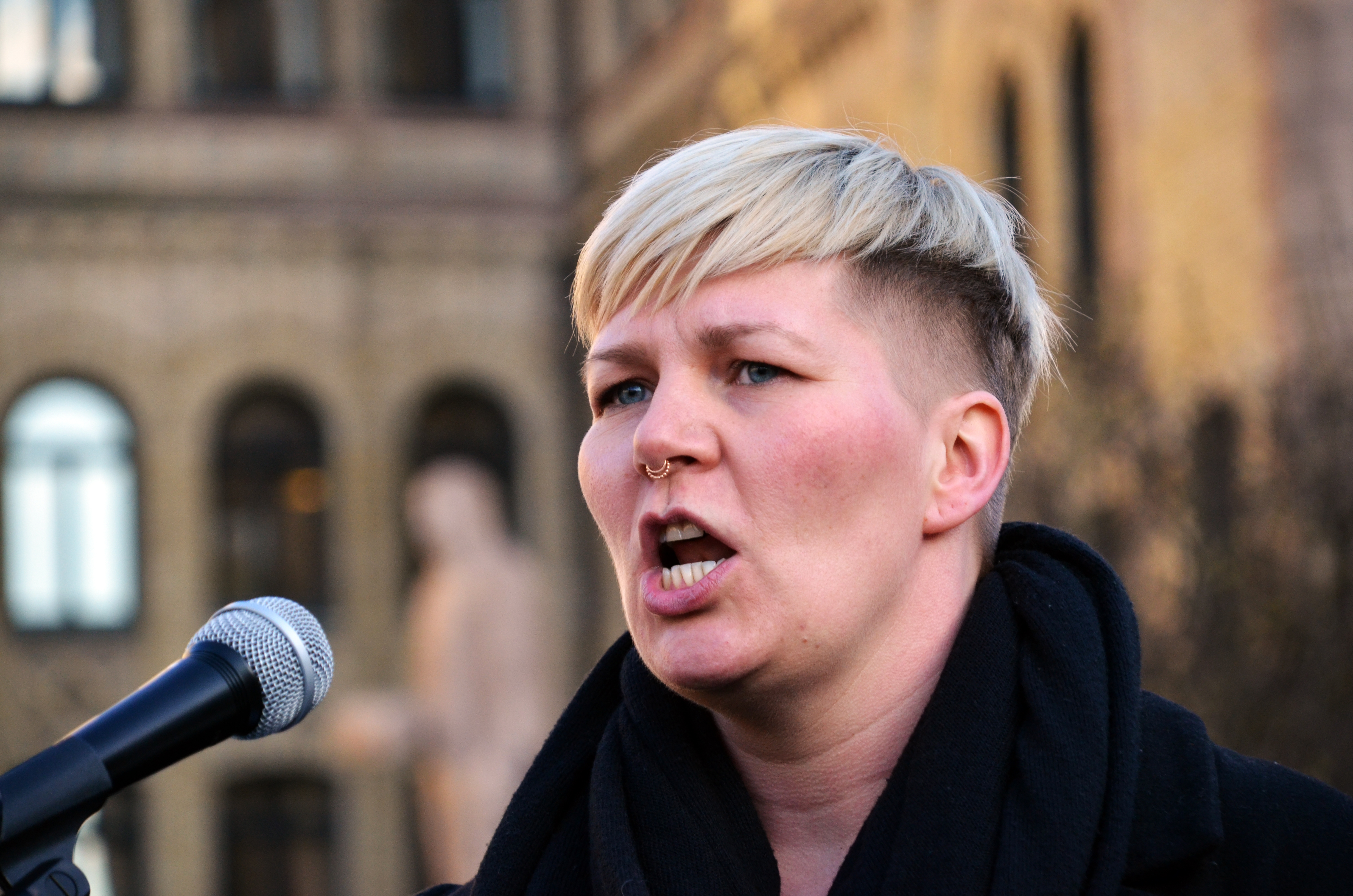 Norwegian activist Benedikte Pryneid Hansen speaking a protest rally in front of the Norwegian Parliament.